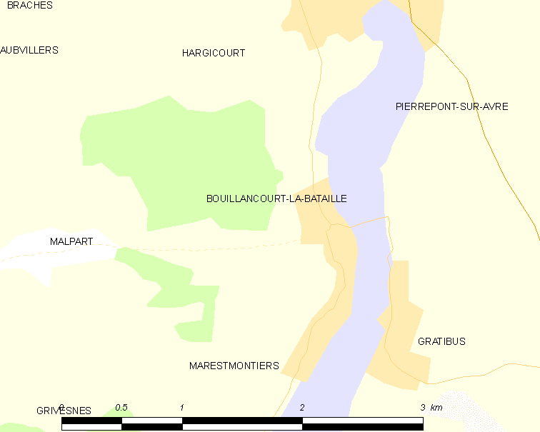 Map of French municipality Bouillancourt-la-Bataille